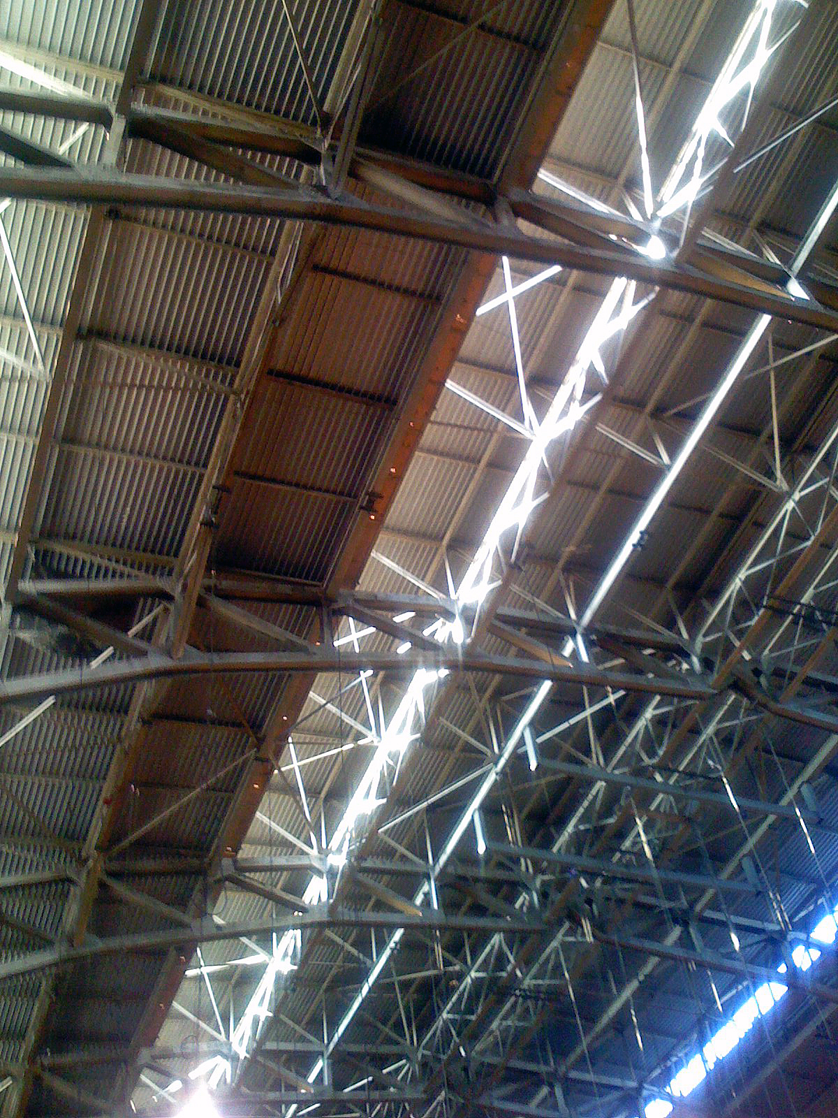 The interior ceiling/roof of Hinkle Fieldhouse, showing the girders and corrugated iron structure.